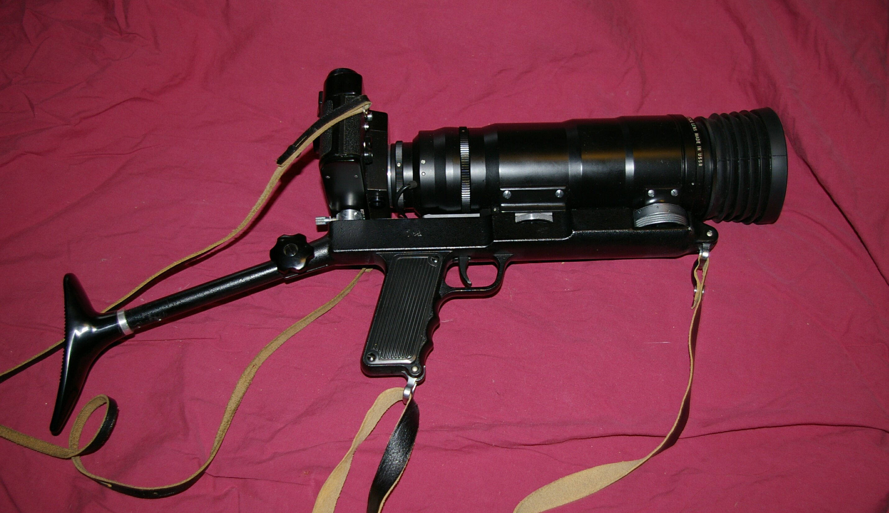 Photograph of a Zenit 12S Photosniper